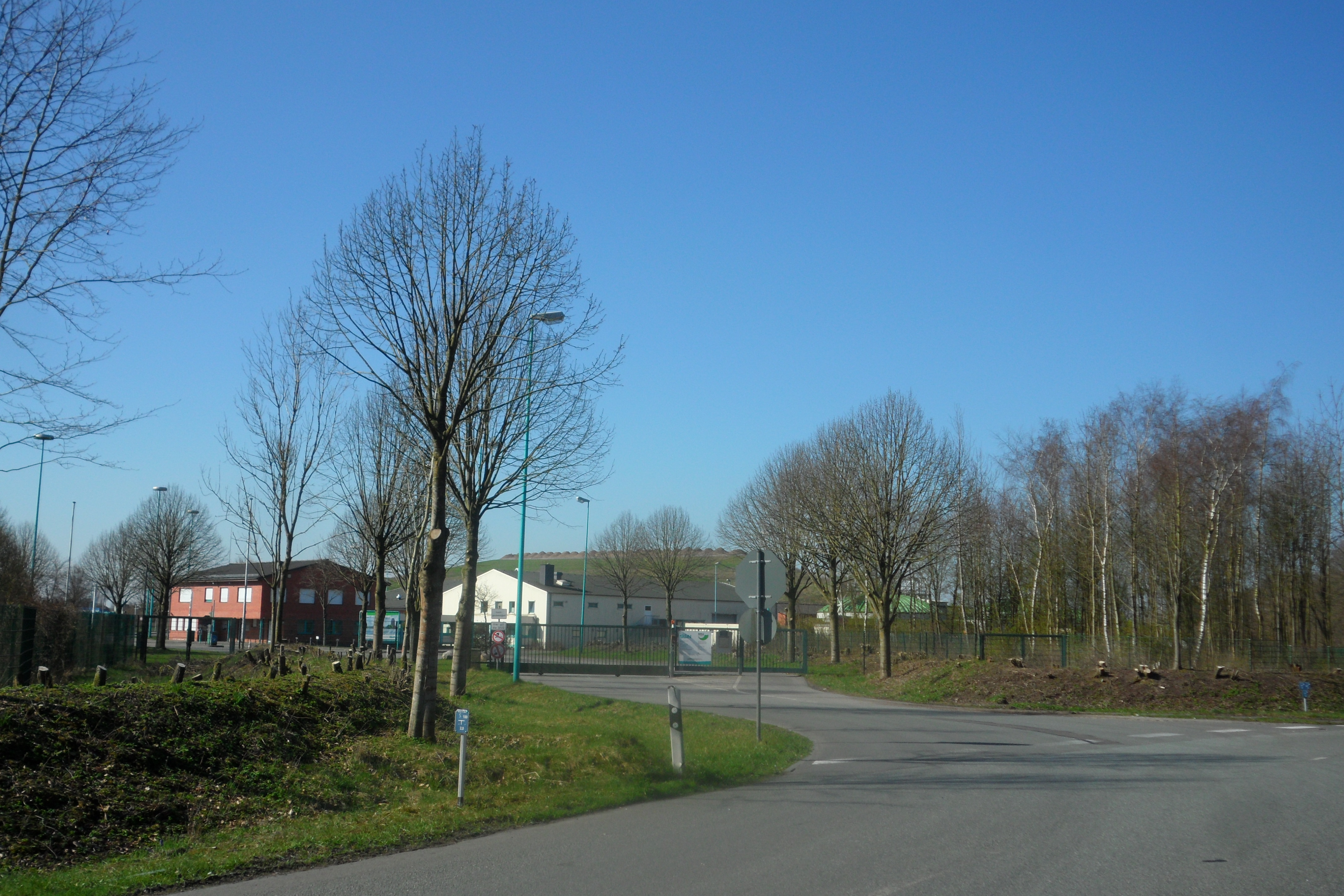 Main entrance to the landfill in Neumünster_Wittorf operated by the Stadtwerke Neumünster (SWN)